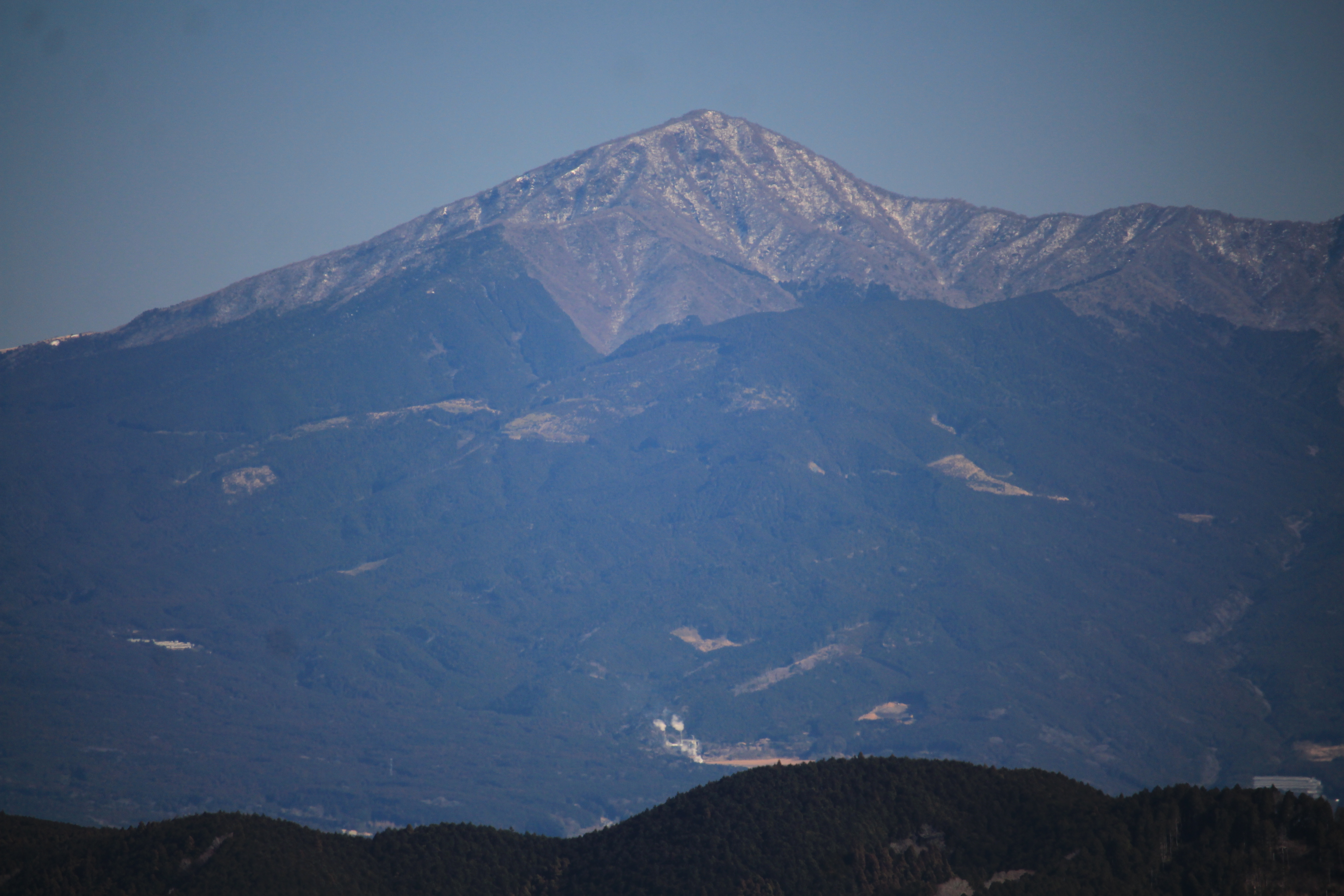 Mount Echizen seen from Mount Hamaishi in Shizuoka Prefecture, Japan